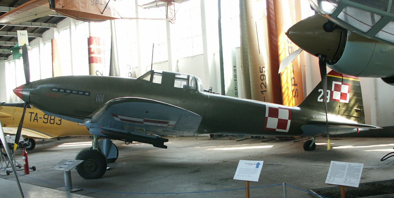 Avia B33 (licence-built Ilyushin Il-10) in the Polish Aviation Museum in Kraków